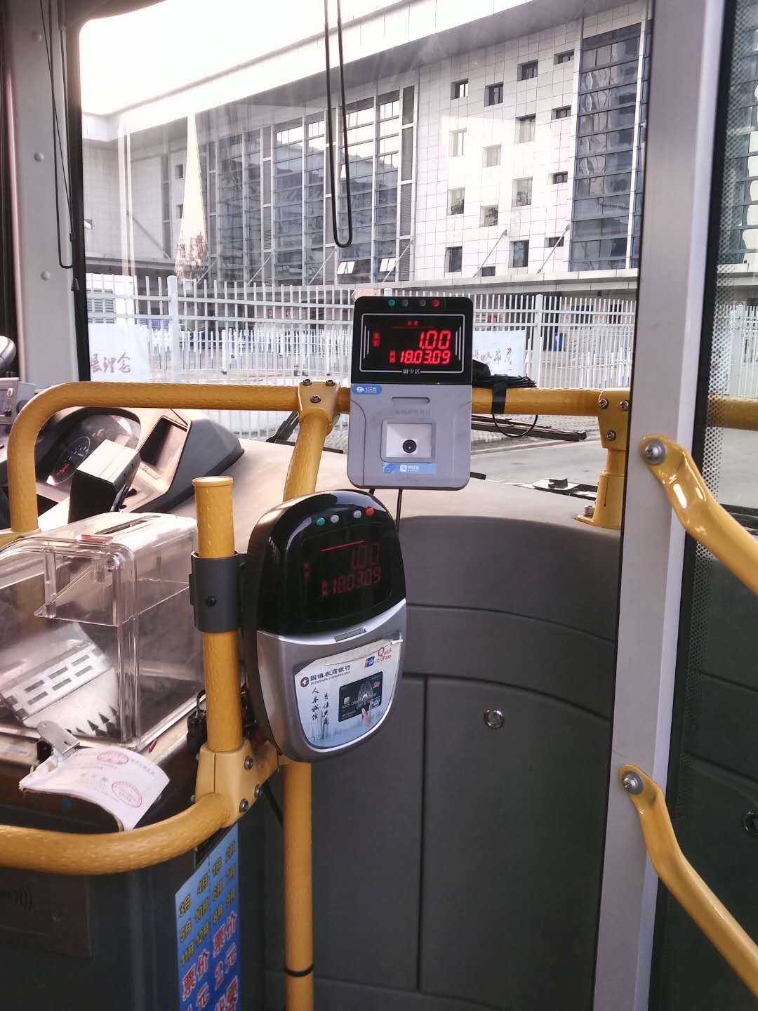 Bengbu Bus No.128 with Alipay Credit card machine.